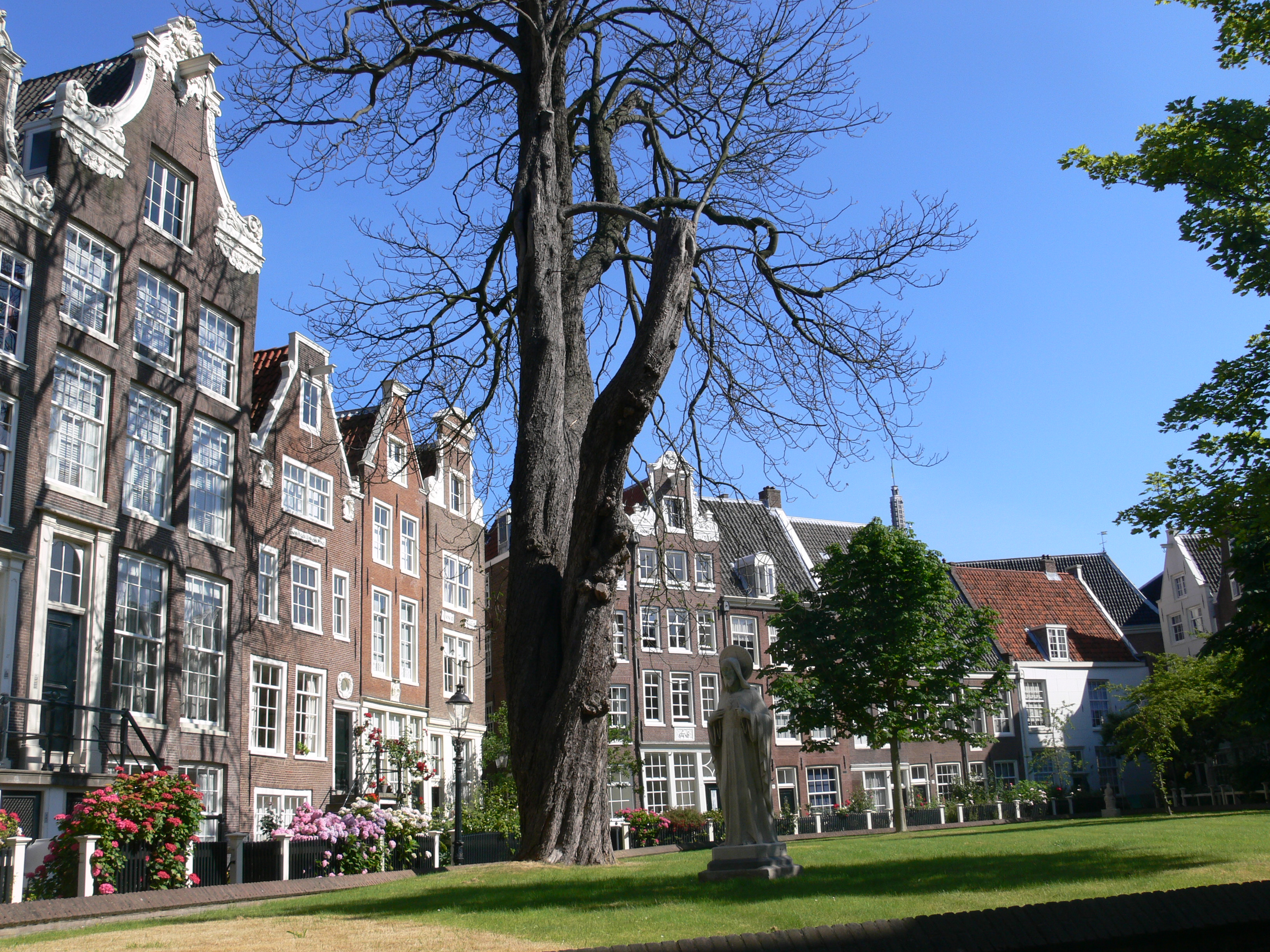 Begijnhof, Amsterdam This is an image of rijksmonument number 356 This is an image of rijksmonument number 357